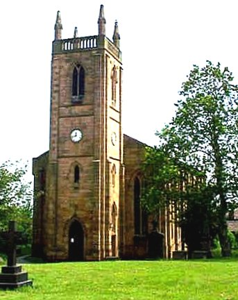 Hanging Heaton, St Paul's Church.